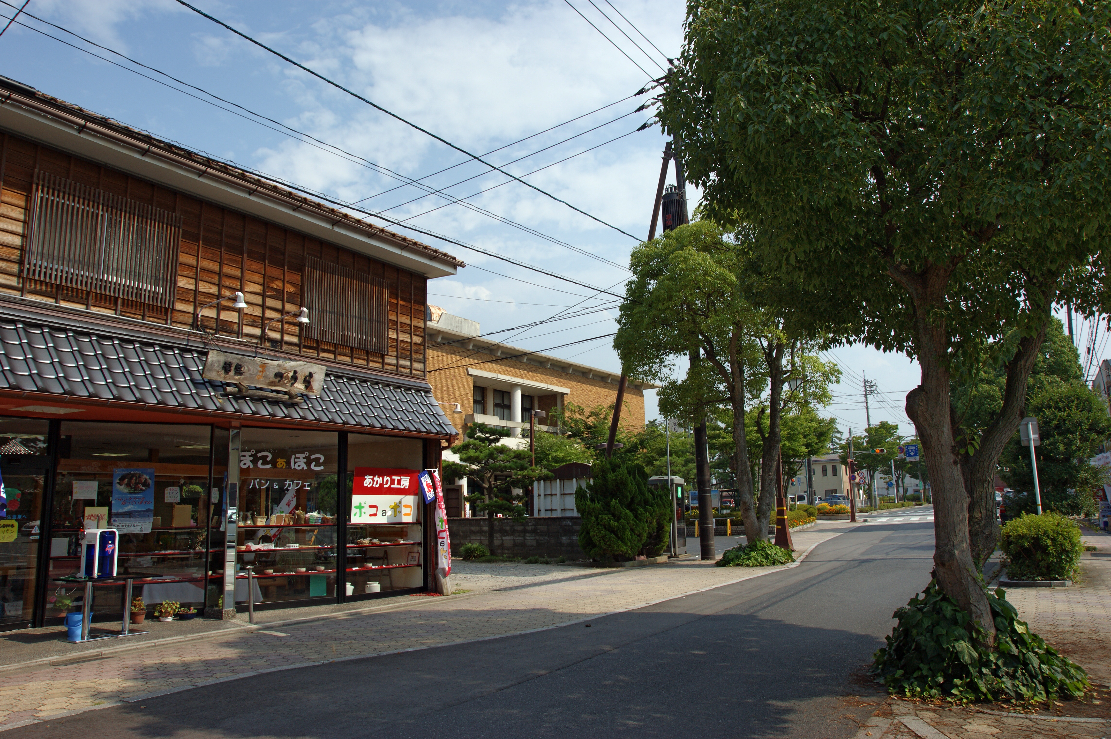 Kaike Onsen in Yonago, Tottori prefecture, Japan